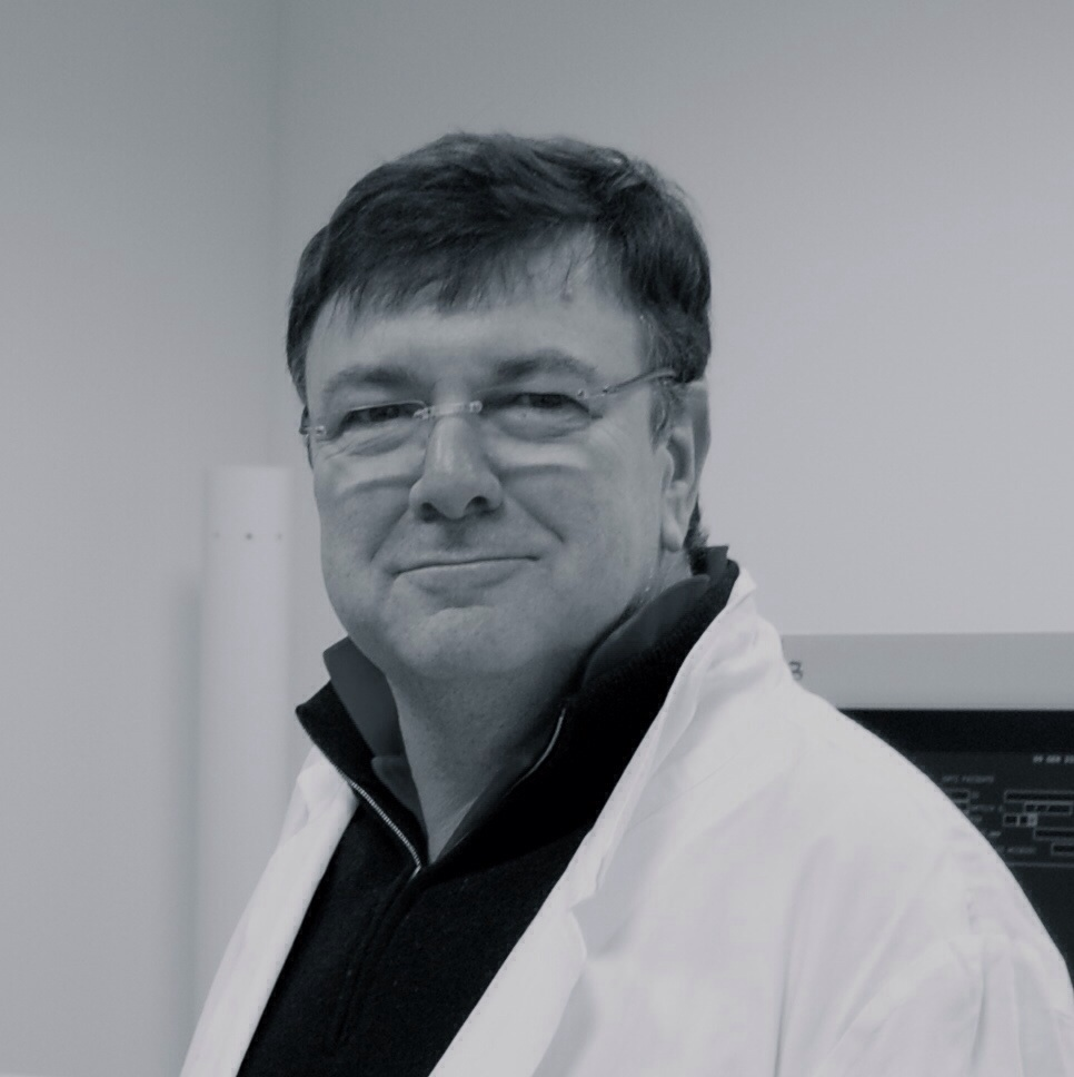 Image of professor Paolo Zamboni